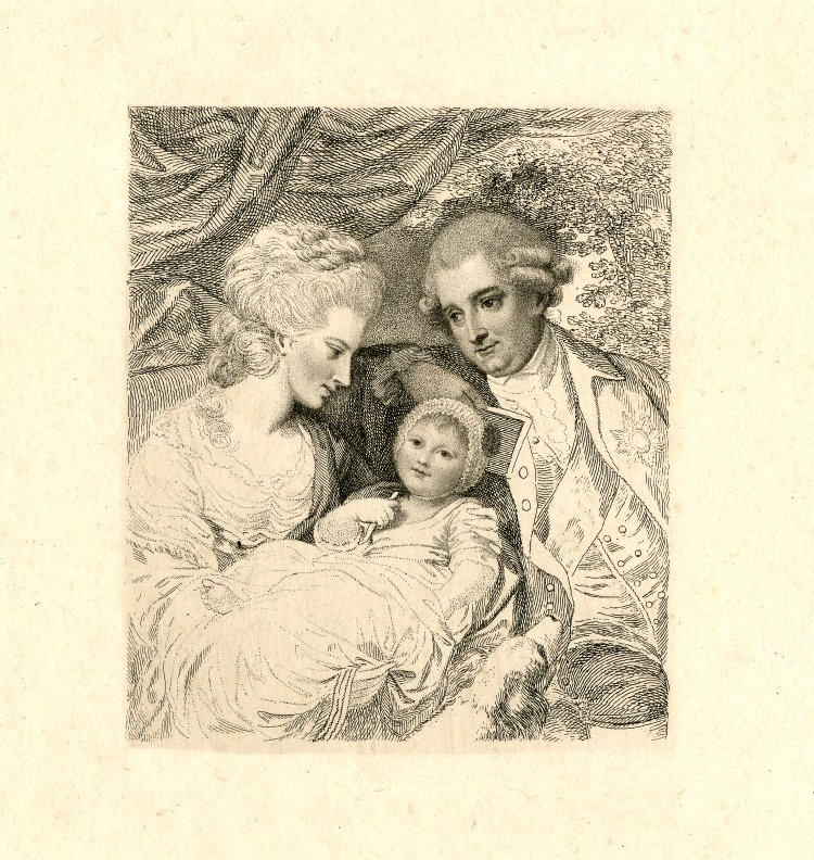 "Portraits of Duke and Duchess of Marlborough and infant Francis Spencer"